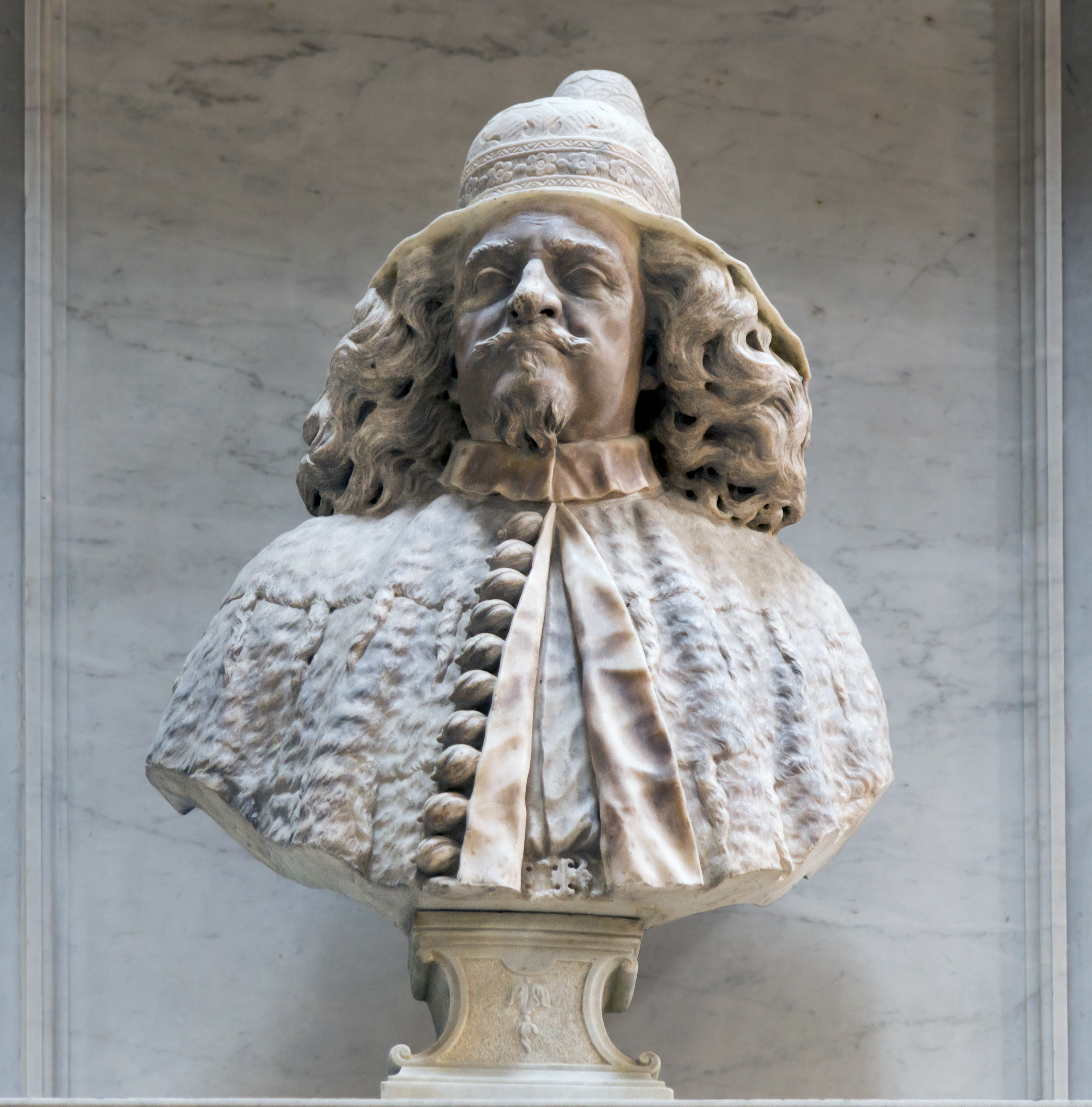 San Francesco della Vigna Venice, Chapel Sagredo, bust of the Doge Nicolò Sagredo by Antonio Gai.